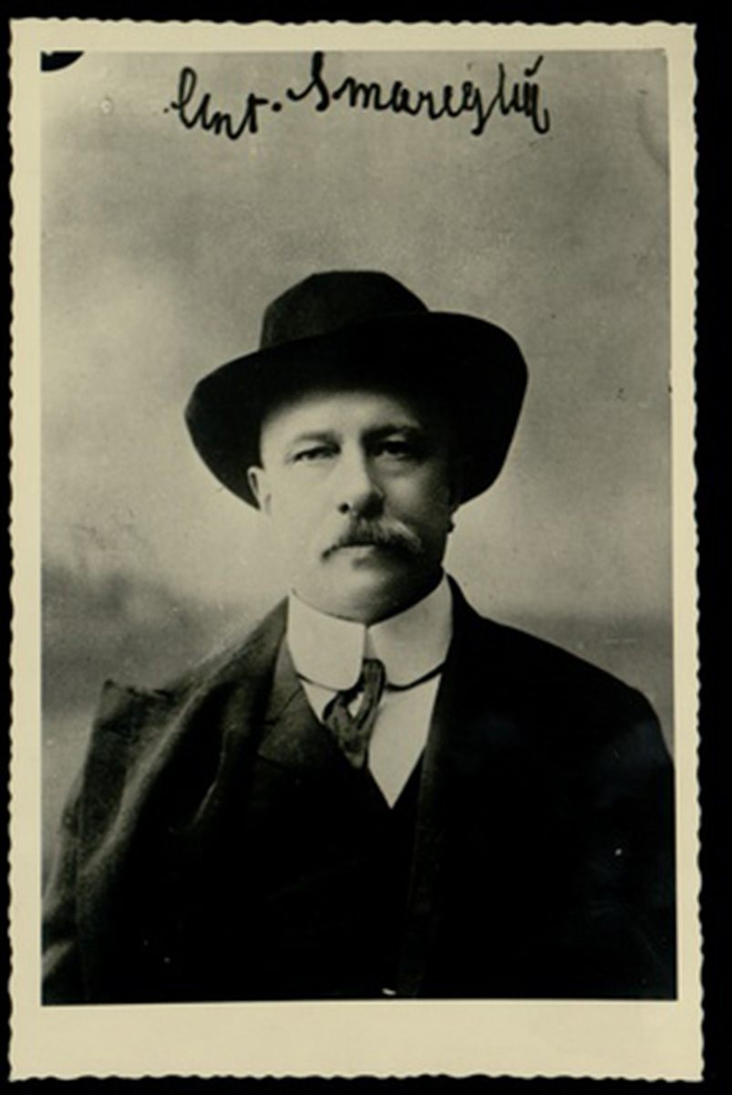 Portrait of Antonio Smareglia, composer (1854-1929). Photo by unknown, before 1929.